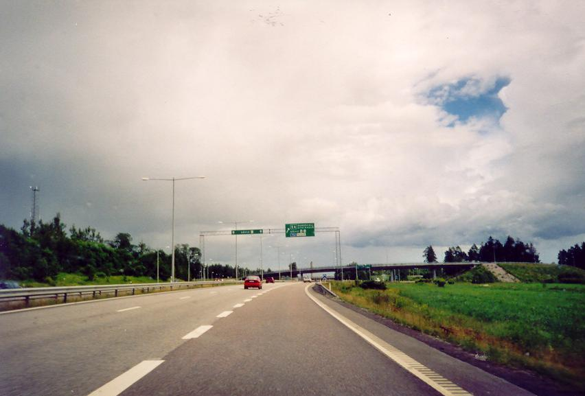 The Swedish National road 80 at the Gävle Västra Junction, where it meets the E4. National road 80 is motorway between Sandviken and Gävle, but continues as a normal road west of Sandviken. Photo taken by Sebbe 2002.